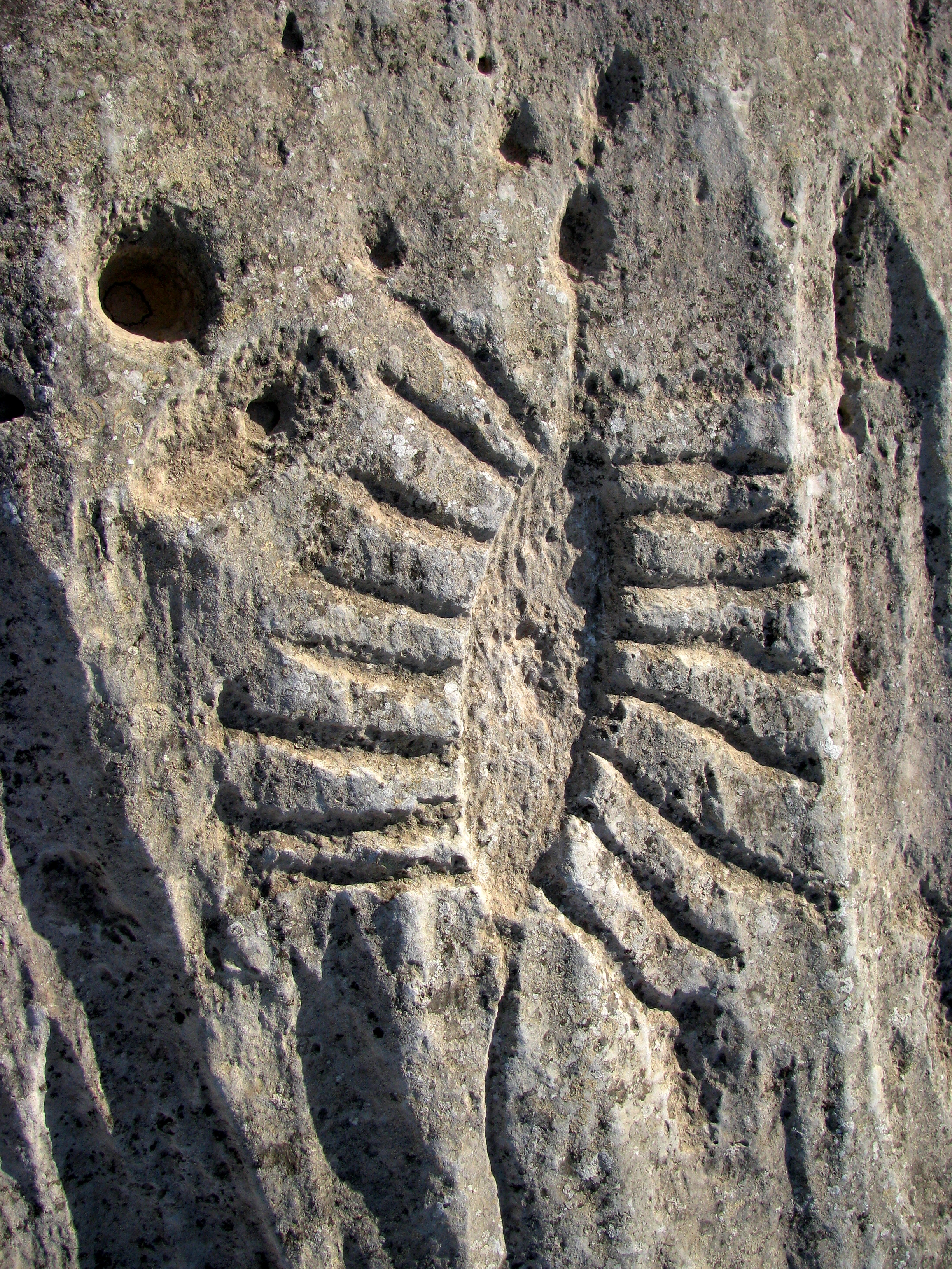 We were taken by friends to visit Jebel Jassassiyeh in the north of Qatar; the site is very difficult to find without a guide. This rocky ridge is well known for its extensive and ancient rock carvings. Apparently the meaning of the carvings is unknown. We saw a large number of carvings with this type of shape - perhaps an eye? A boat? Or an insect?